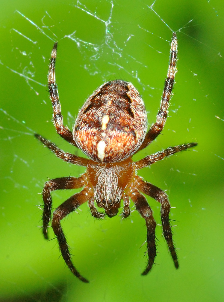 This image shows a European garden spider (Araneus diadematus) which is only a few millimeters large.